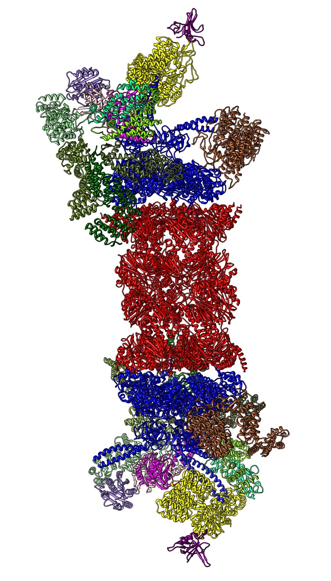 Atomic model of 26S proteasome